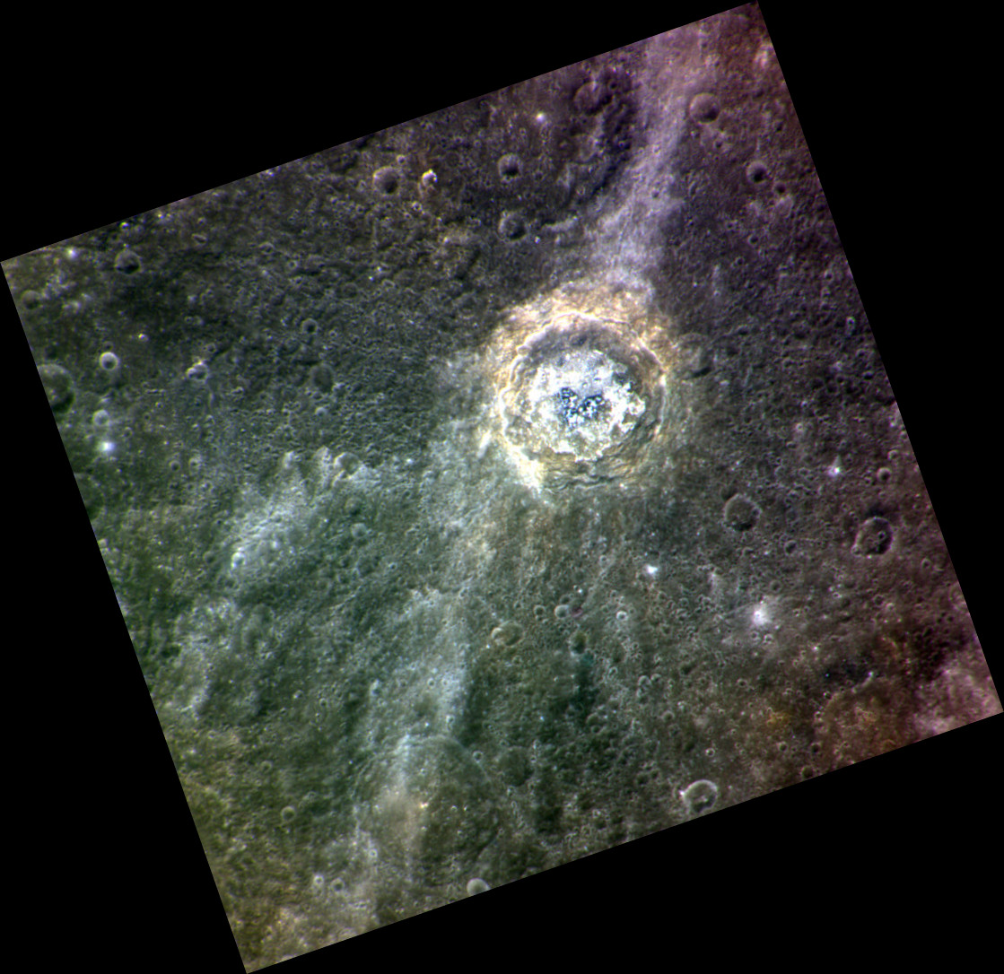 De Graft crater on Mercury. The floor of de Graft is almost completely covered in hollows. The light bands in upper right and lower left are rays from the crater Hokusai, far to the north. Approximate color representation combining three images acquired by MESSENGER Wide Angle Camera (EW1047699591G, EW1047699595F, EW1047699599I) with I (996.2 nm), G (748.7 nm), and F (433.2 nm) filters. Combined in GIMP software as RGB (Red-Green-Blue), and then rotated so that north is up. Statistics for I image: Emission Angle: 6.0 Incidence Angle: 22.1 Latitude: 21.1 Longitude: 1.2 Phase Angle: 28.1